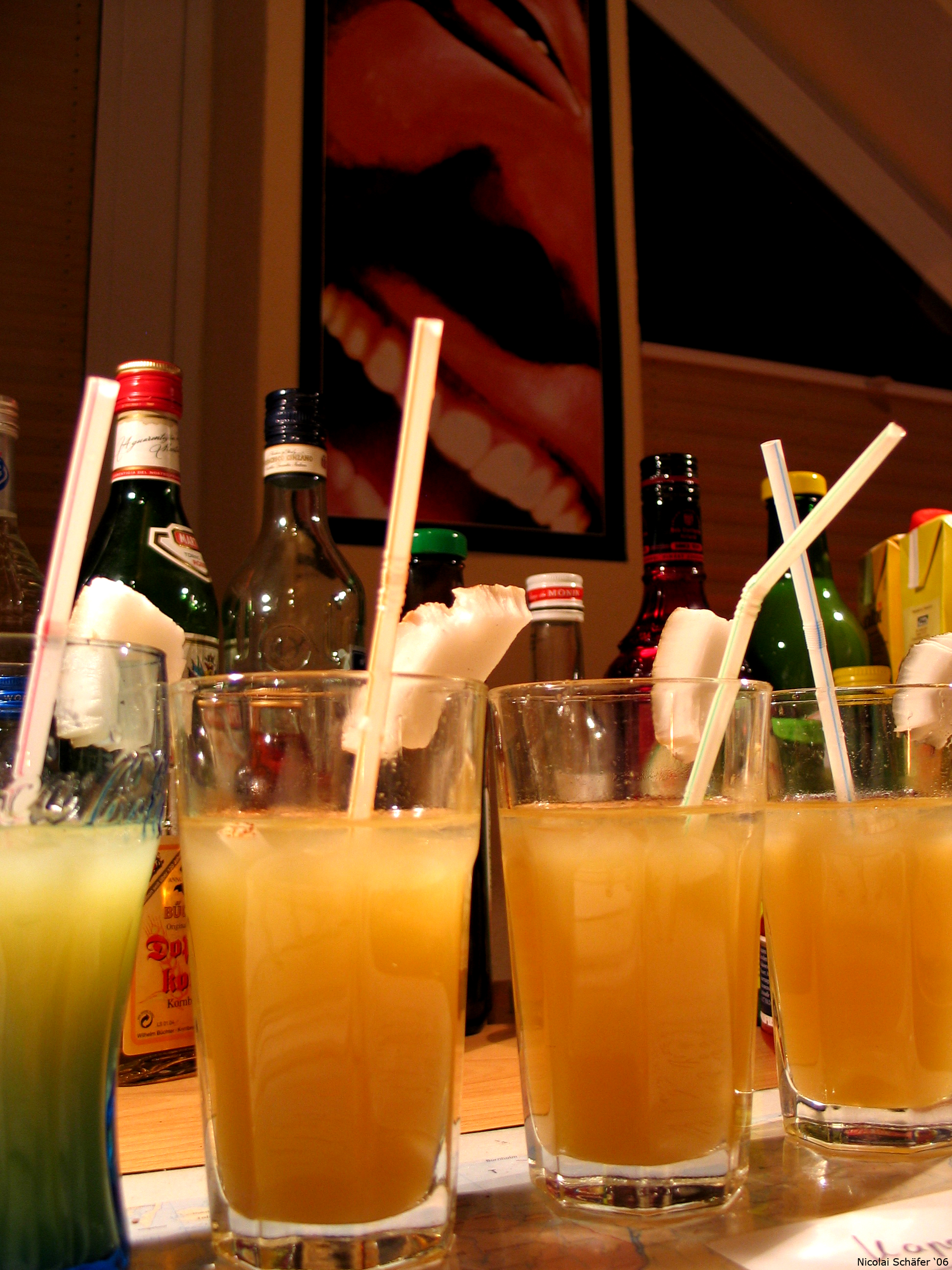 Cocktails (Pina Colada) with a piece of coconut.